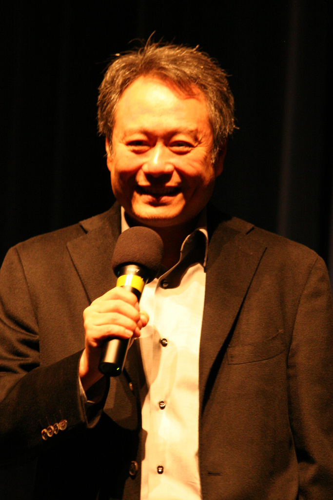 Film director Ang Lee